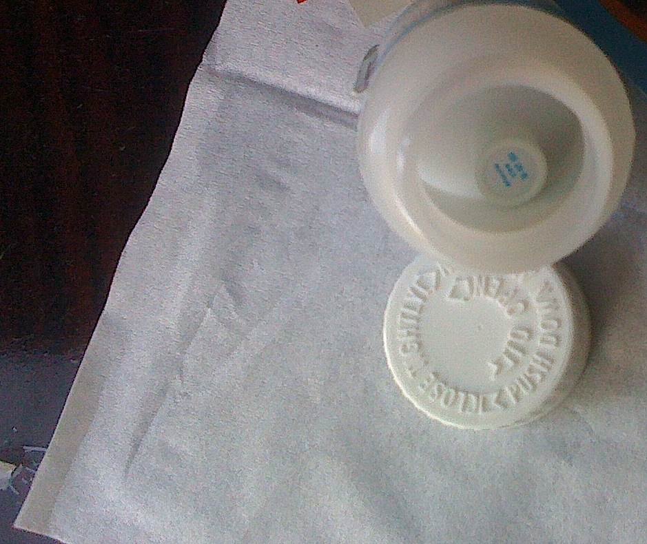 Molecular Sieve